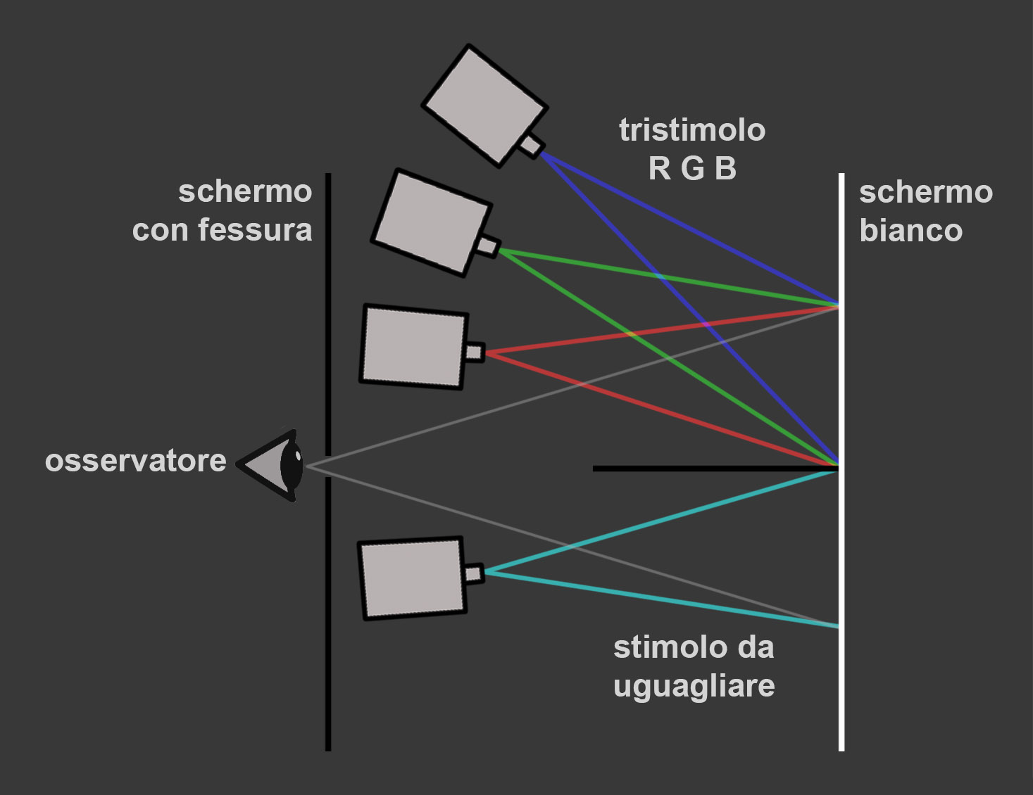 This figure shows the experiments to match the colors of all the spectrum wavelengths with the three primary lights, carried out by W.D. Wright in 1928 and J. Guild in 1931.